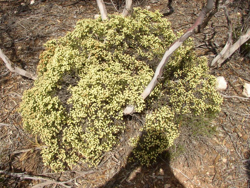 Microcybe multiflora subsp. baccharoides Location: "the [Murray] Mallee region near Swan Reach, South Australia"